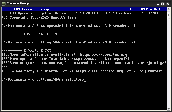 find command on ReactOS-0.4.13